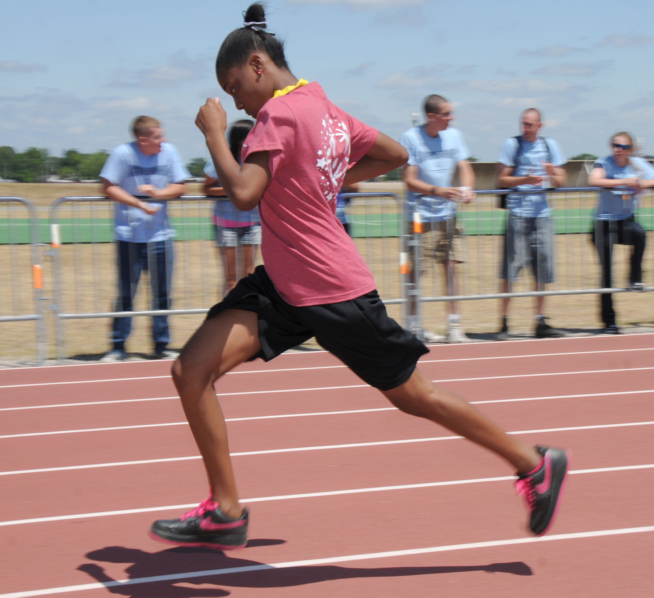 Special Olympian Diona Bell dashes by a group of U.S. Airmen to win the gold medal in the 100-meter run at the Mississippi Special Olympics Summer Games, hosted by Keesler Air Force Base (AFB) in Biloxi, Miss., May 14, 2011. It was the 25th year Keesler AFB hosted the statewide event. Almost 1,000 athletes participated with their coaches and parents, bolstered by thousands of volunteers from Keesler AFB and other organizations.